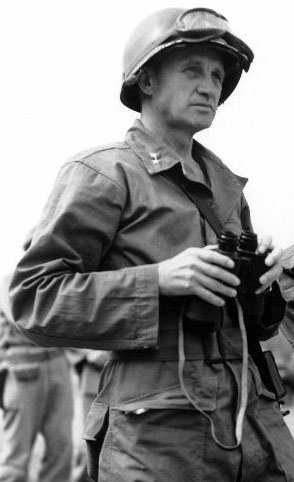 Maj. Gen. Hobart R. Gay, pictured here on Sept. 28, 1950, was commanding general of the U.S. 1st Cavalry Division, whose troops killed large numbers of South Korean refugees at No Gun Ri.